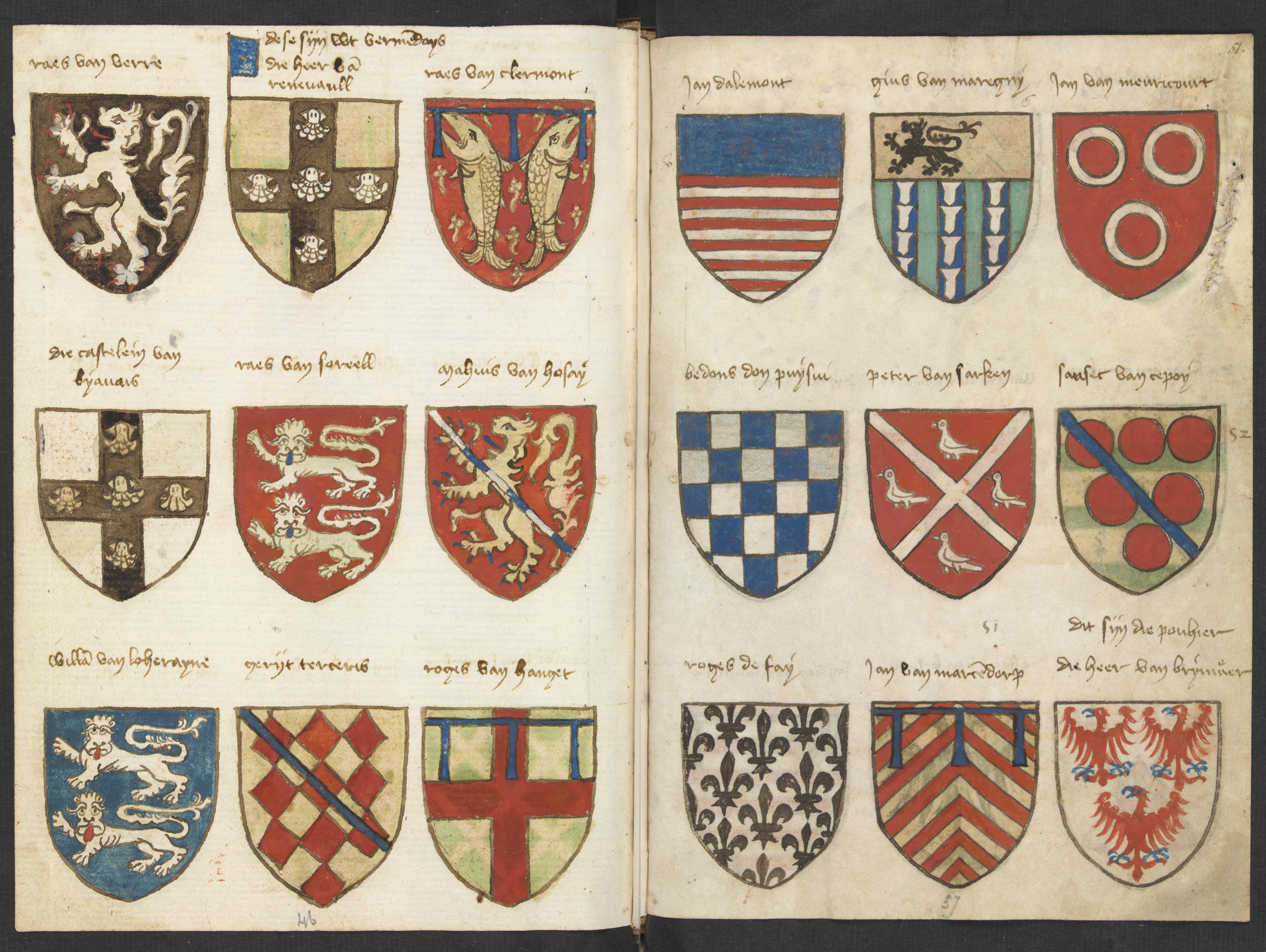 Lefthand side folio 050v; righthand side folio 051r from the Beyeren armorial / Wapenboek Beyeren